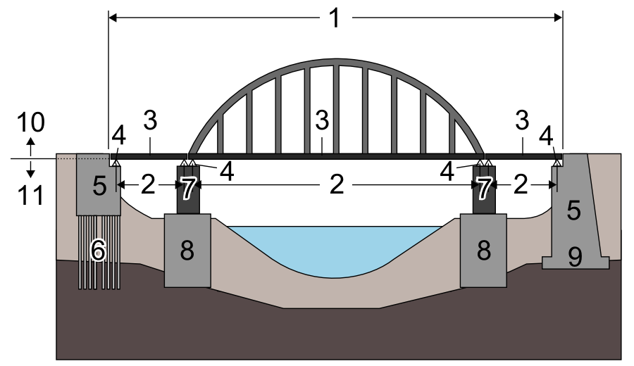 Basic structure of a bridge No-text